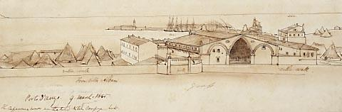 Porto D'Anzo. Sepia ink and wash (corrections in gouache). Annotated: From Villa Albani. Porto d'Anzo. 9. March. 1845. (LL in pencil and ink)